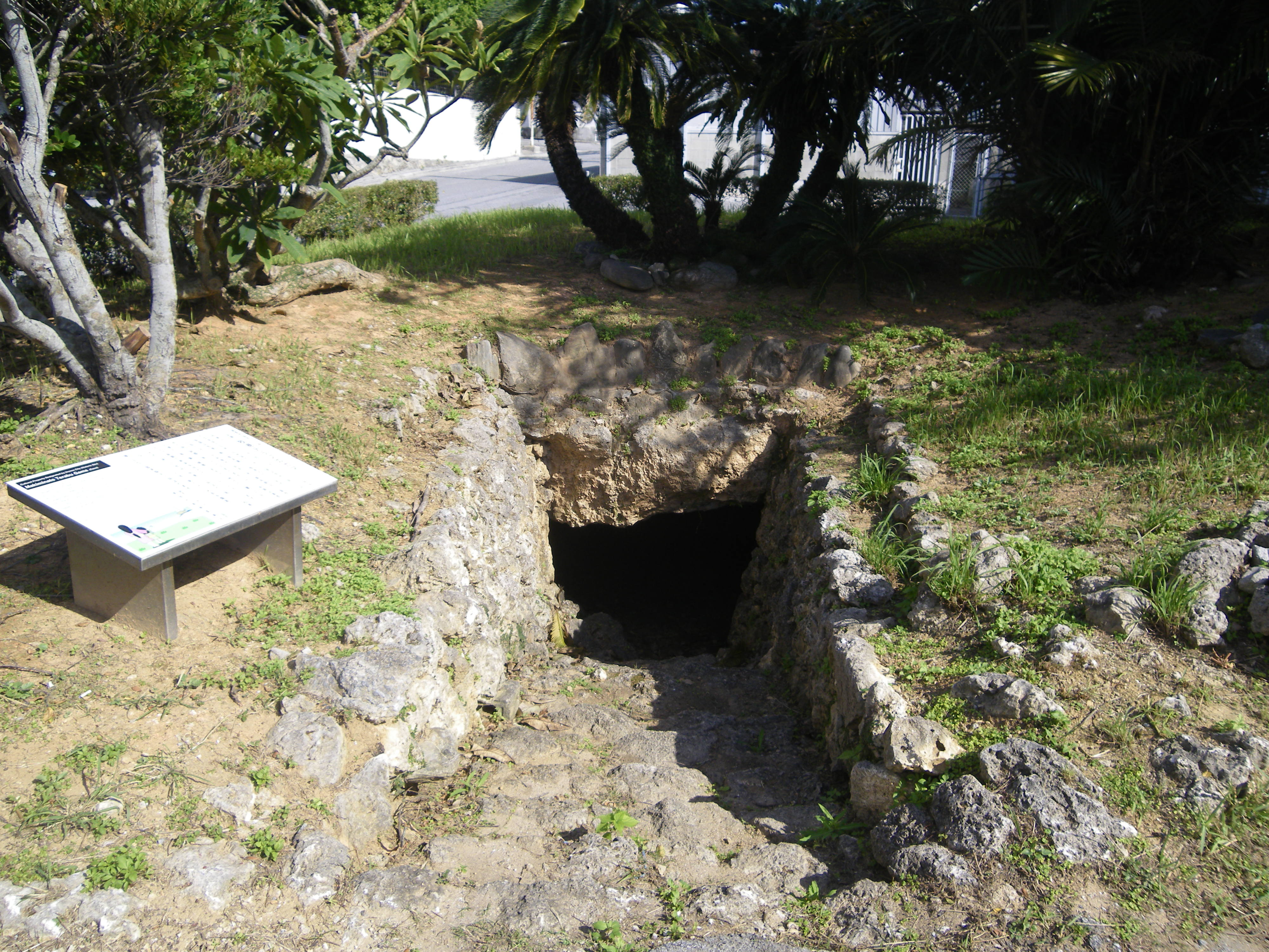 Makiminato Terabu Cave, according to a legend, Minamoto no Tametomo married a younger sister of Ozato Aji, and then has a son. When Tametomo returned to Japanese mainland on a ship, his wife and son waited anxiously his return to Okinawa in this cave.The son was named Sonton, later became the first of Ryukyu's King Shunten.